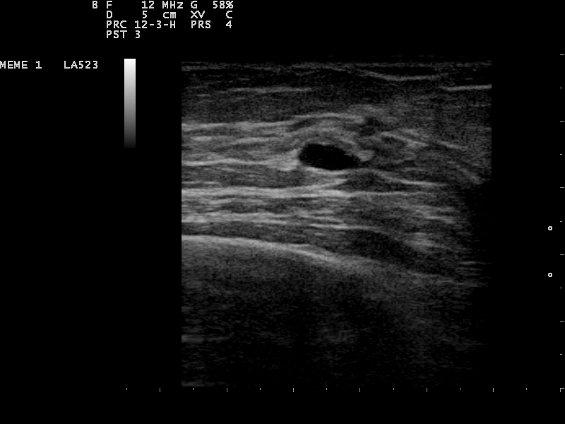 Medical ultrasound image. Provided as-is. Please feel free to categorise, add description, crop.